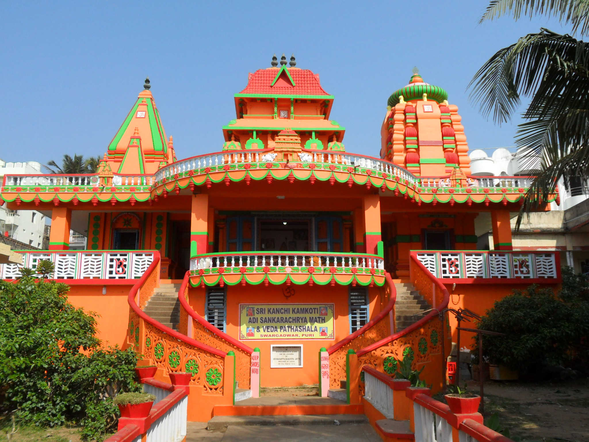 Temple, Puri, India